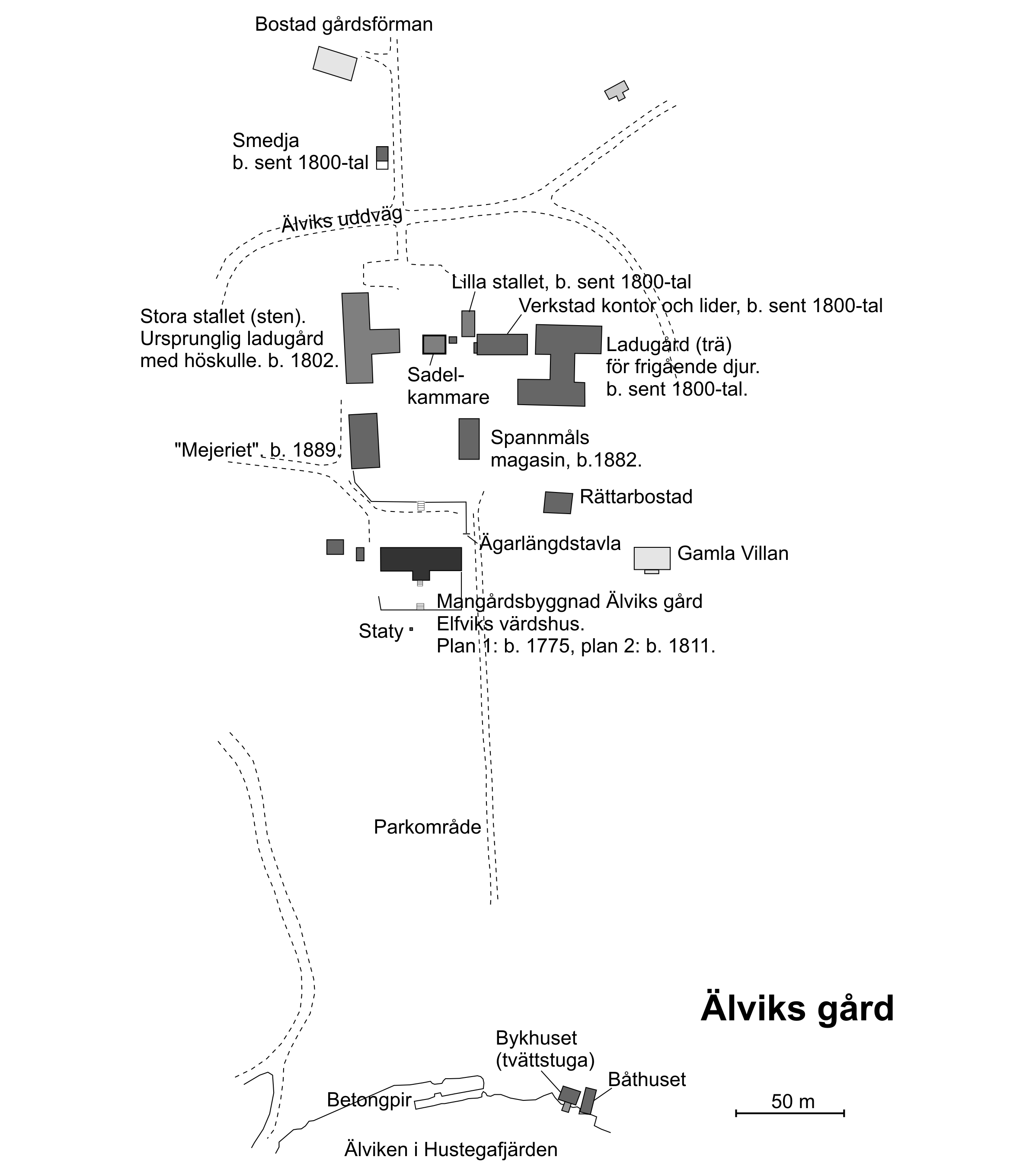 Elfvik farm, Lidingö. Map covering the main buildings included in the farm.